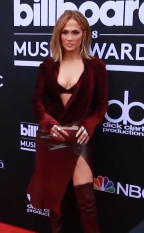 Jennifer Lopez at Billboard Music Awards Red Carpet 2018